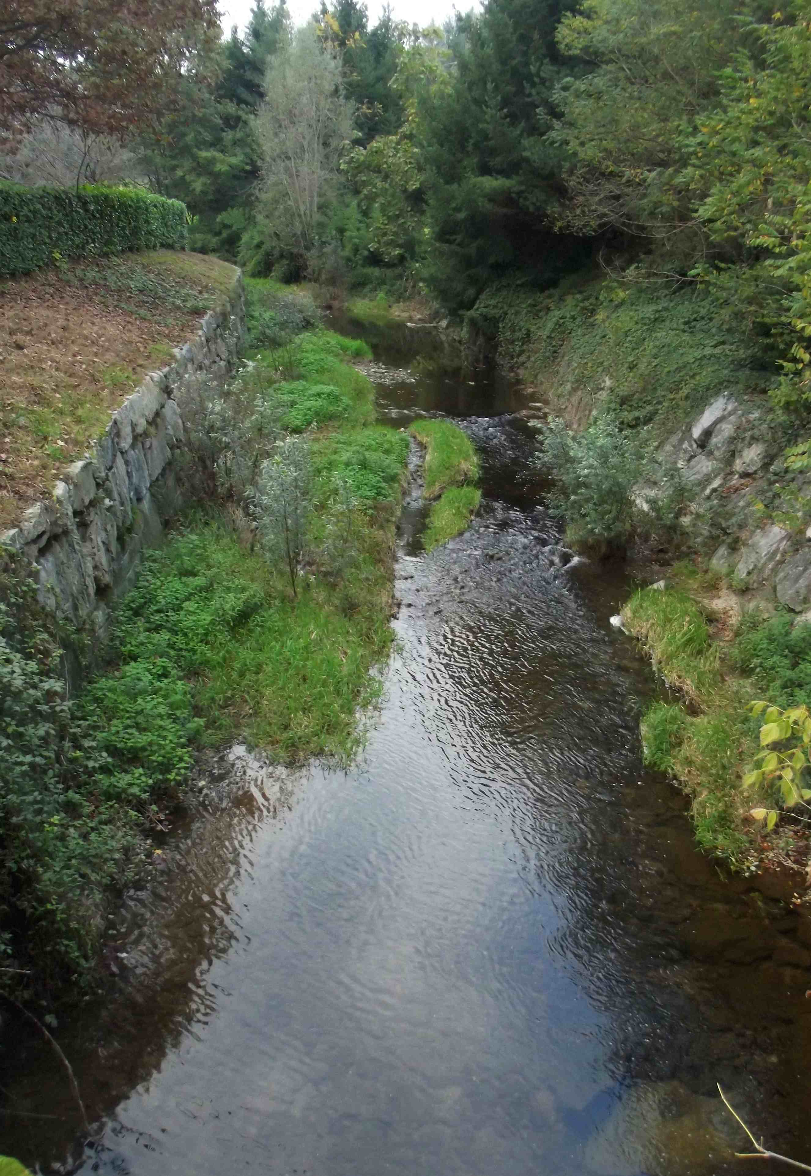 The Ottina near Massazza (BI, Italy)